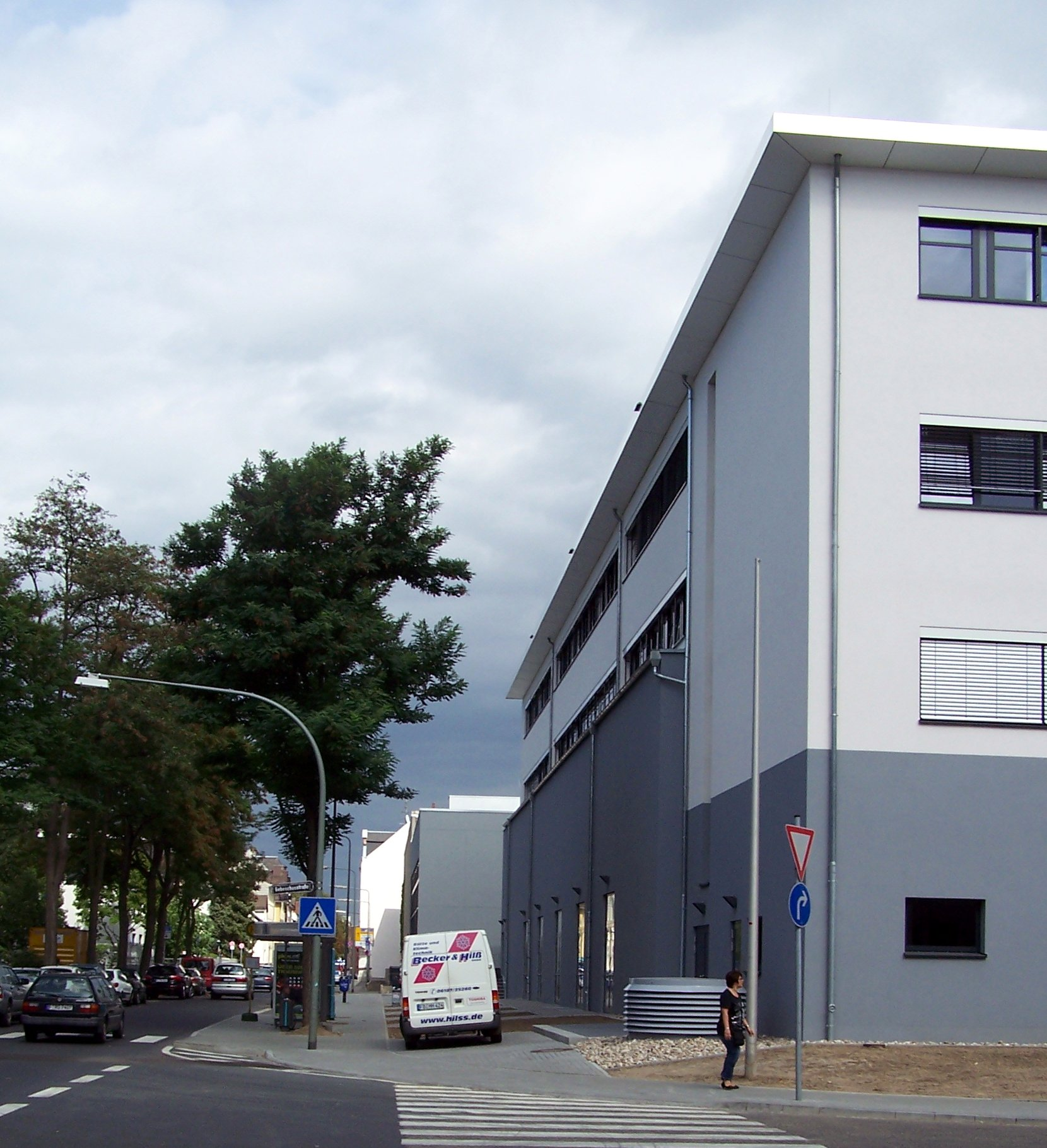 Northern facade of the new Bikuz (Gebeschusstraße)